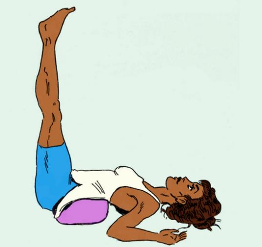 Supine position